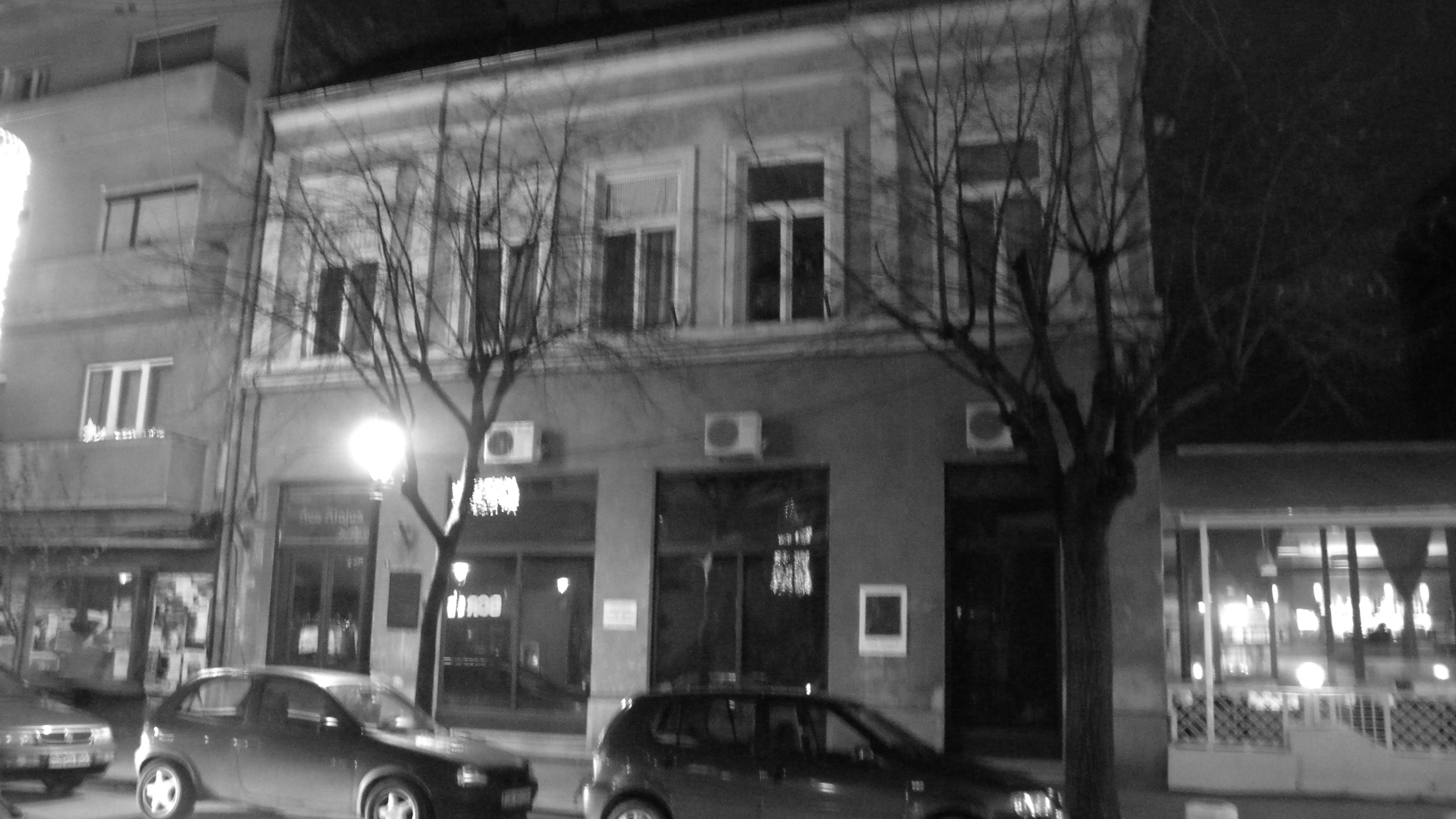 Ács Alajos Studio